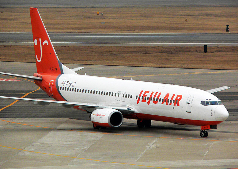 Jeju Air(7C/JJA) Boeing 737-800